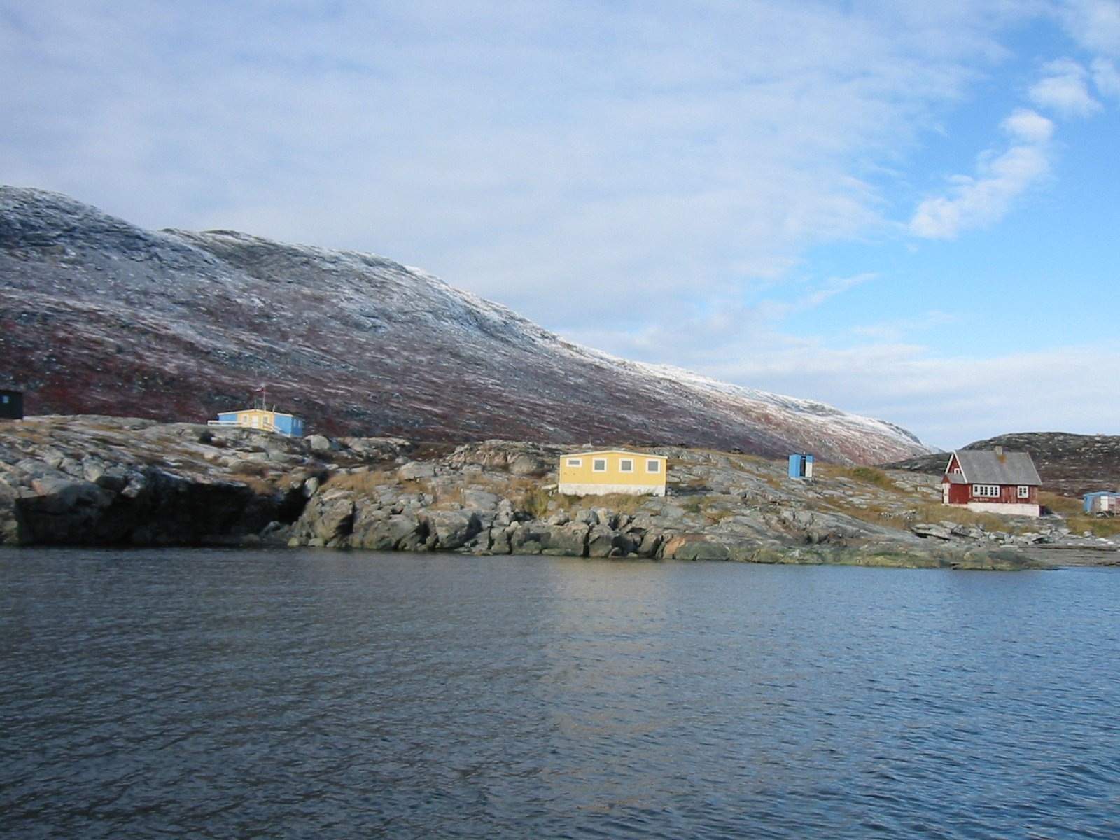 Ataa, (aka Ata, Atâ, Atarta). A summer settlement (max population four) used by botanists, tourists, explorers, tourists, novelists slowly going mad with finishing their latest book, etc, as well as by hunters from the nearby settlement of Rodebay (a sprawling metropolis of 40, a mere twenty kilometers away).